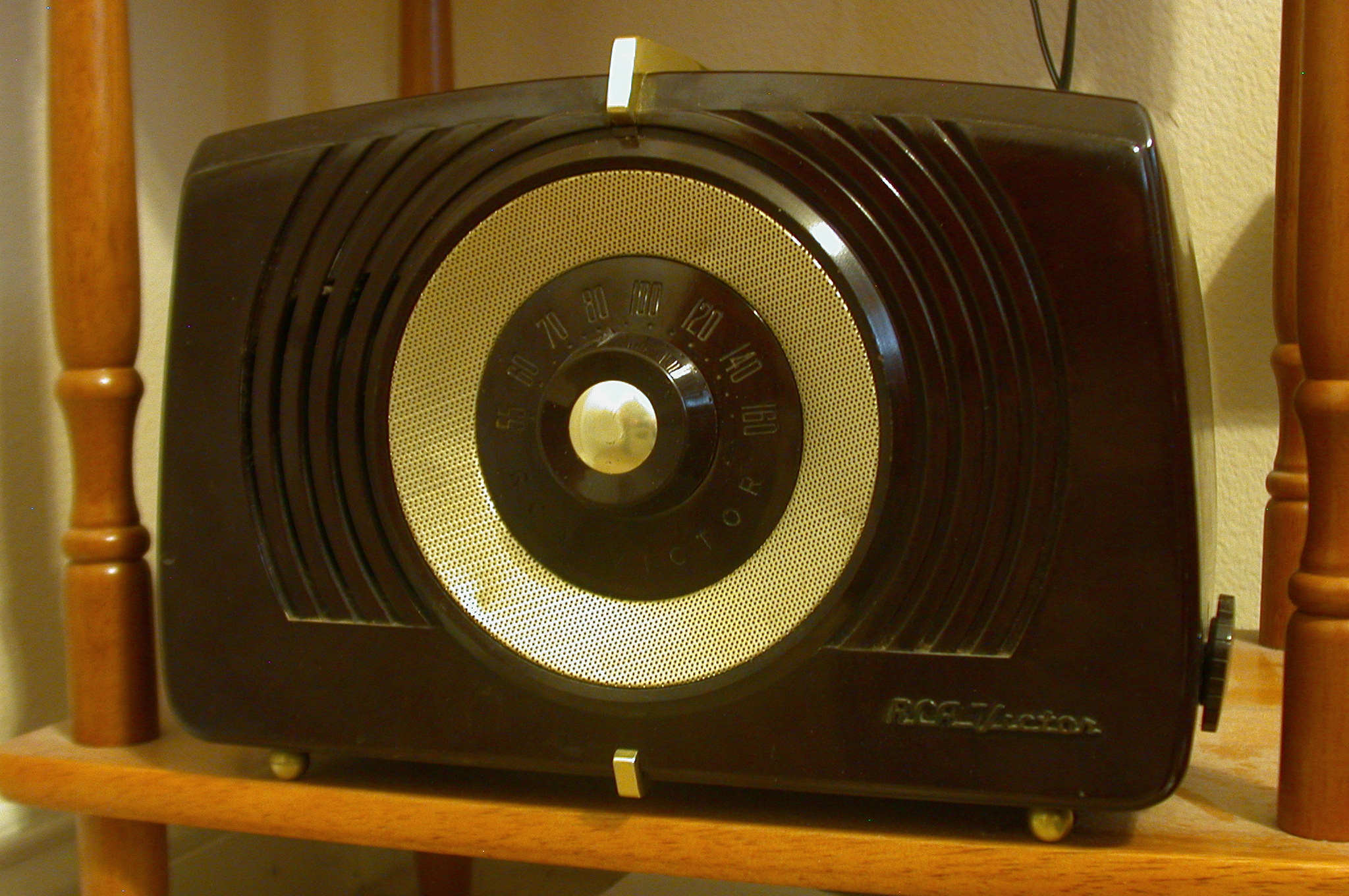 RCA X-551 AM radio, a 1952 model typical of the post-WWII "All-American Five" configuration.